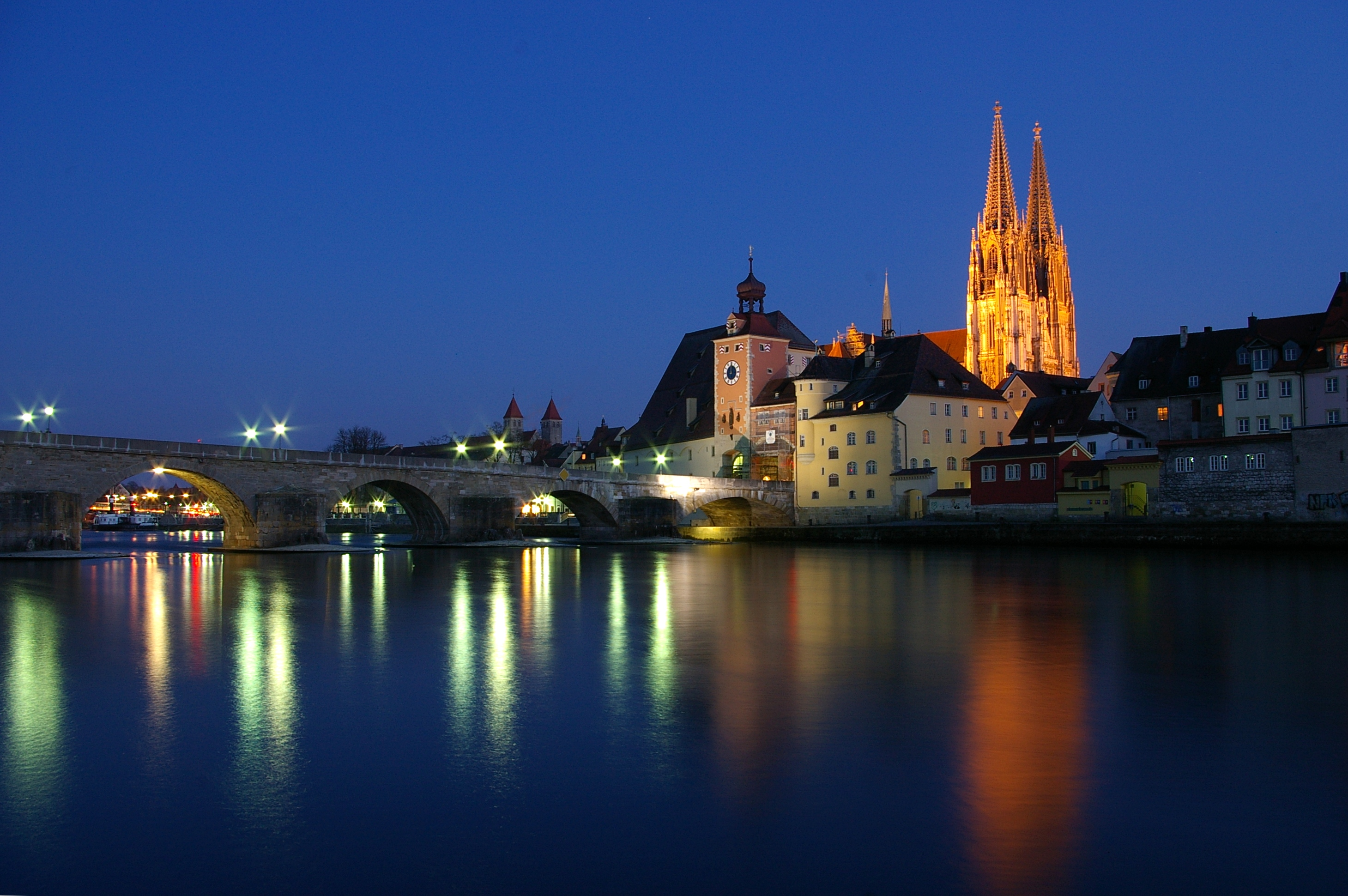 The Stone Bridge in Regensburg over the Danube at sunset with the Regensburg Cathedral in the background.